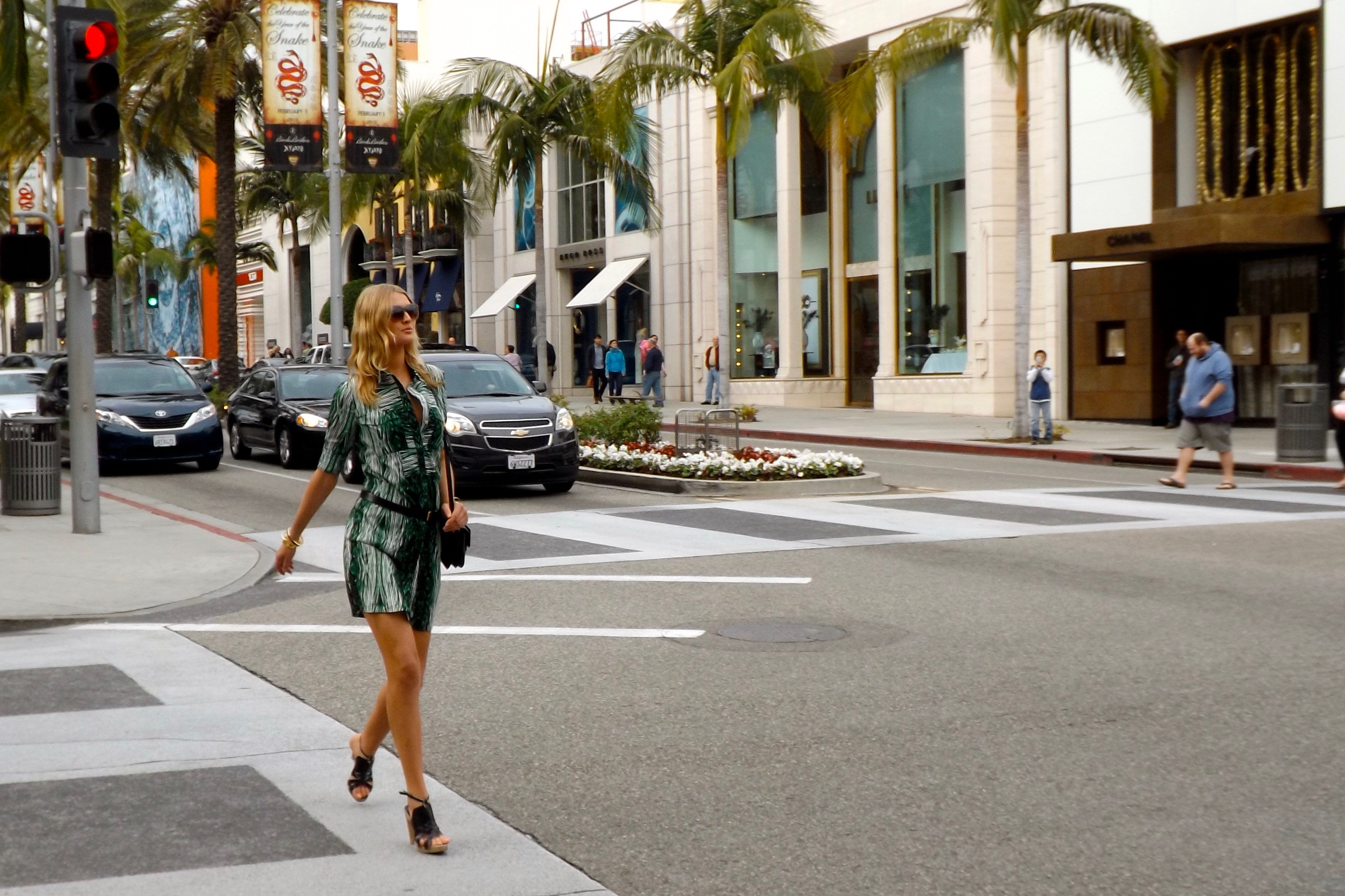 A model in a photo shoot crosses Brighton Way at Rodeo Drive, Beverly Hills, on February 5, 2013.